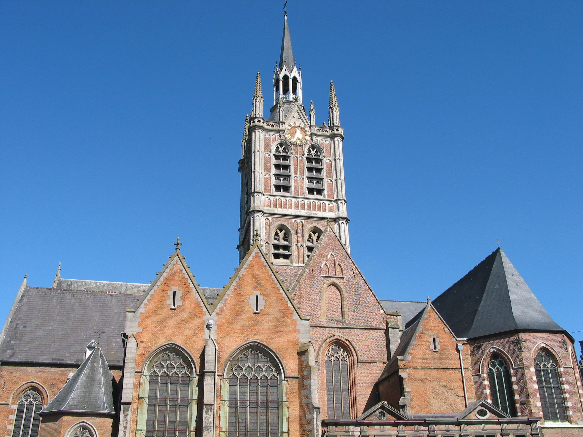 Enghien (Belgium), the St. Nicolas of Smyrne church (XIV/XIXth century).